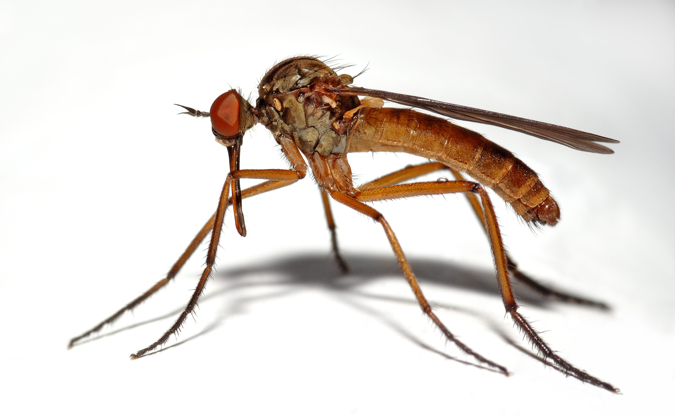 This image shows an about 0.35 inch (9 mm) long dance fly of the species Empis livida. It's a male. Thanks to Doc Taxon for identifying this animal.